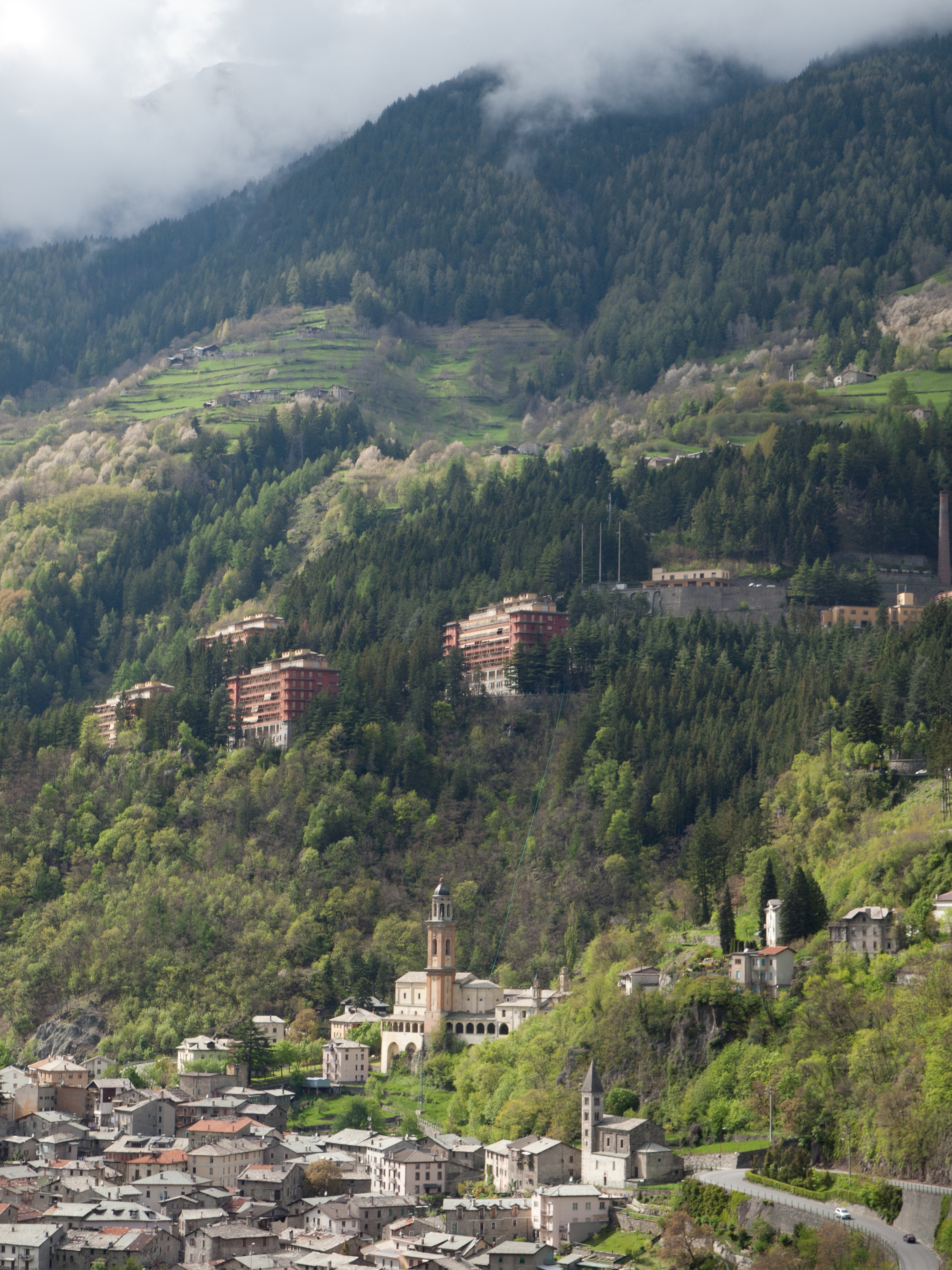 Sondalo (Valtellina) with his ex sanatorium Eugenio Morelli (now hospital)